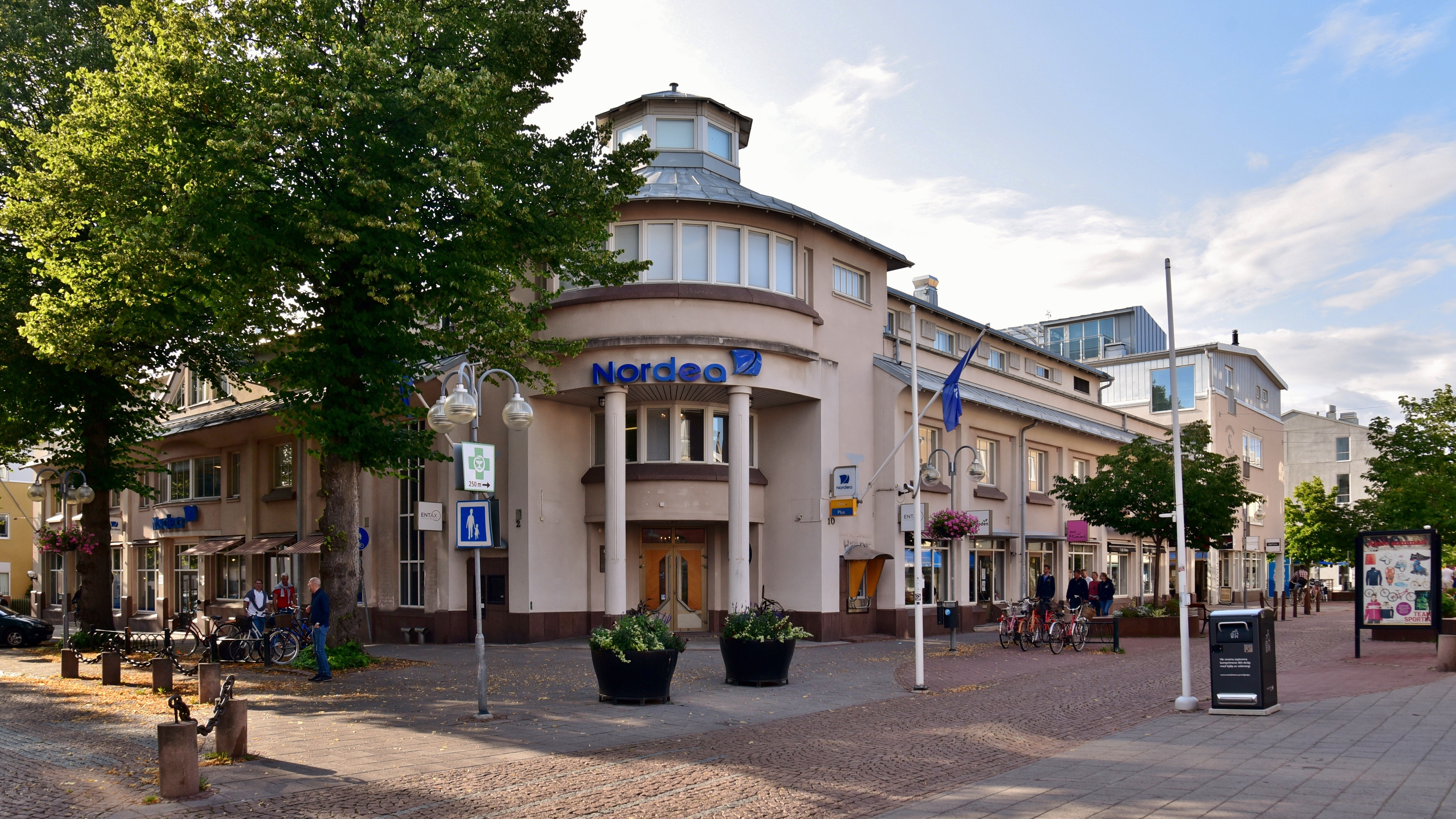 View of the Nordea bank building, Torggatan